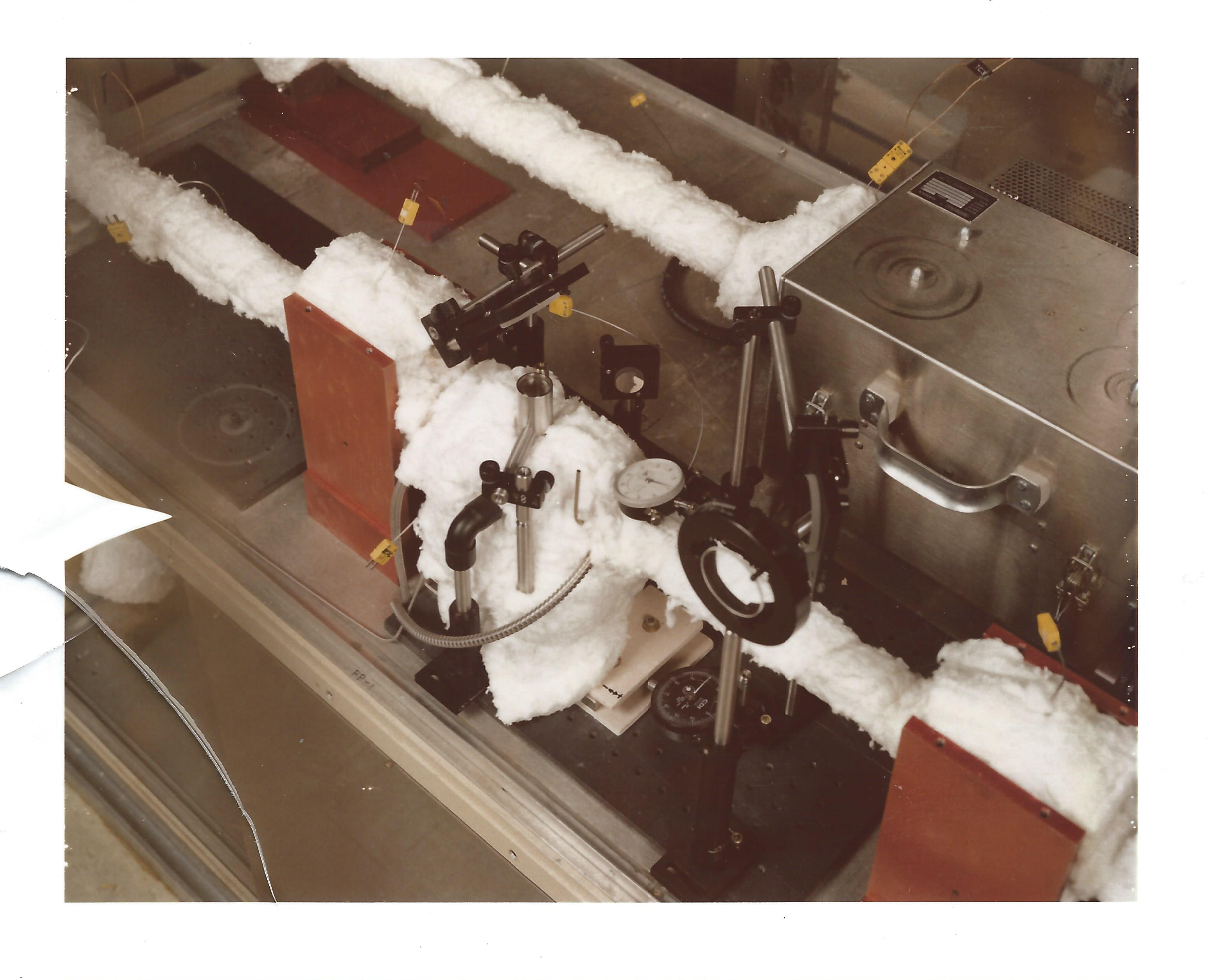 High-pressure, high-temperature optical cell constructed of inconel 625 alloy, with sapphire windows and 24 carat gold pressure seals.